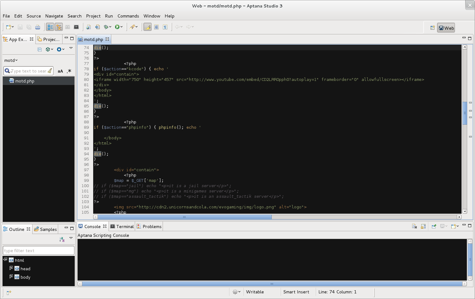 Screen shot of Aptana Studio Community Edition